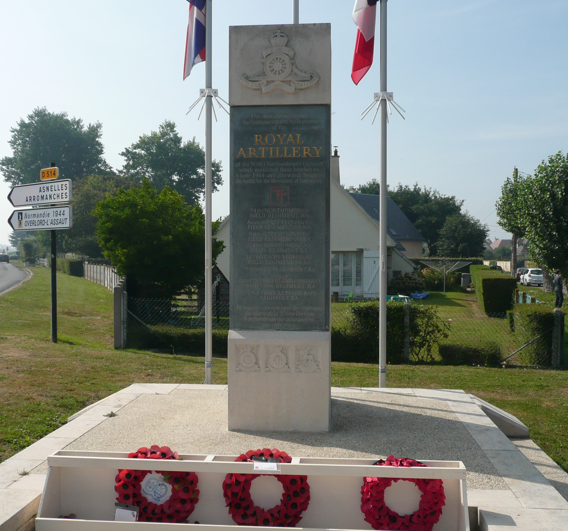 Royal Artillery Monument, Ver-sur-Mer, Normandy, France.